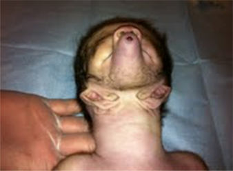 Male infant with otocephaly